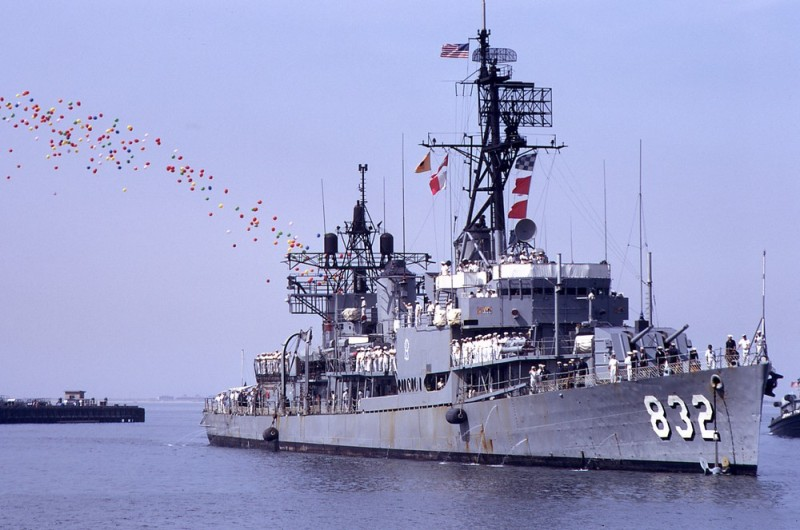 The U.S. Navy destroyer USS Hanson (DD-832) returning to San Diego, California (USA), from her 1971 Western Pacific deployment, on 4 August 1971.